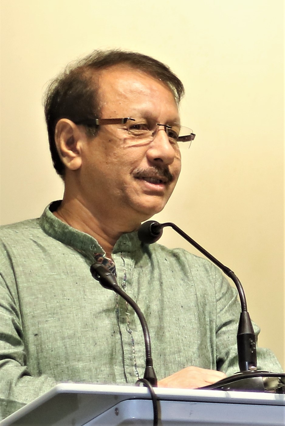 Kamal Abdul Naser Chowdhury (known as Kamal Chowdhury) is a Bengali poet who has been identified with the 1970s.